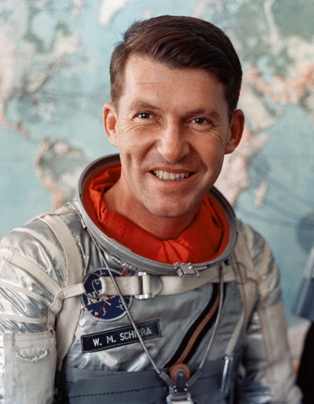 Wally Schirra, astronaut